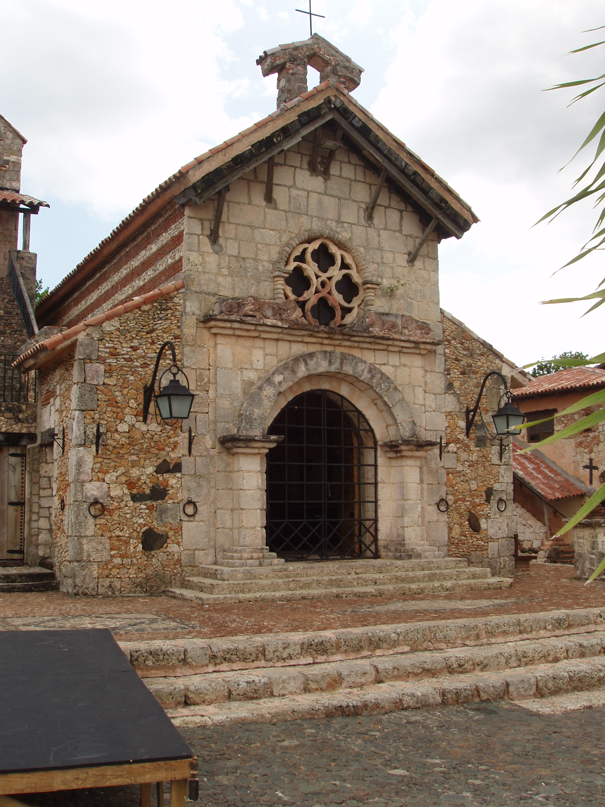 St. Stanislaus Church at Altos de Chavónin La Romana, Dominican Republic - Google Maps - Google Earth